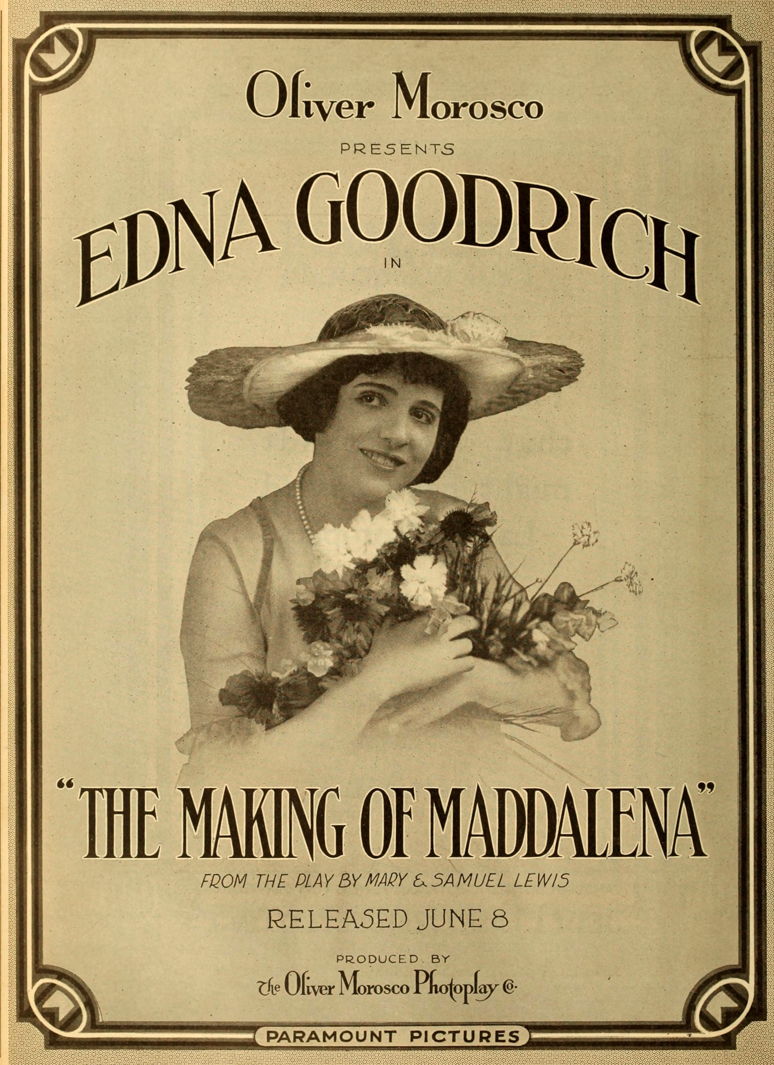 Advertisement in The Moving Picture World for the film The Making of Maddalena (1916).